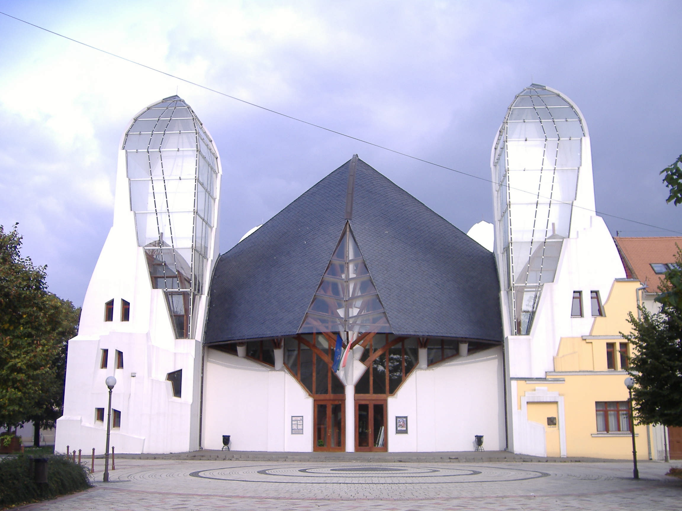 Hagymaház, theatre of Makó, Hungary.